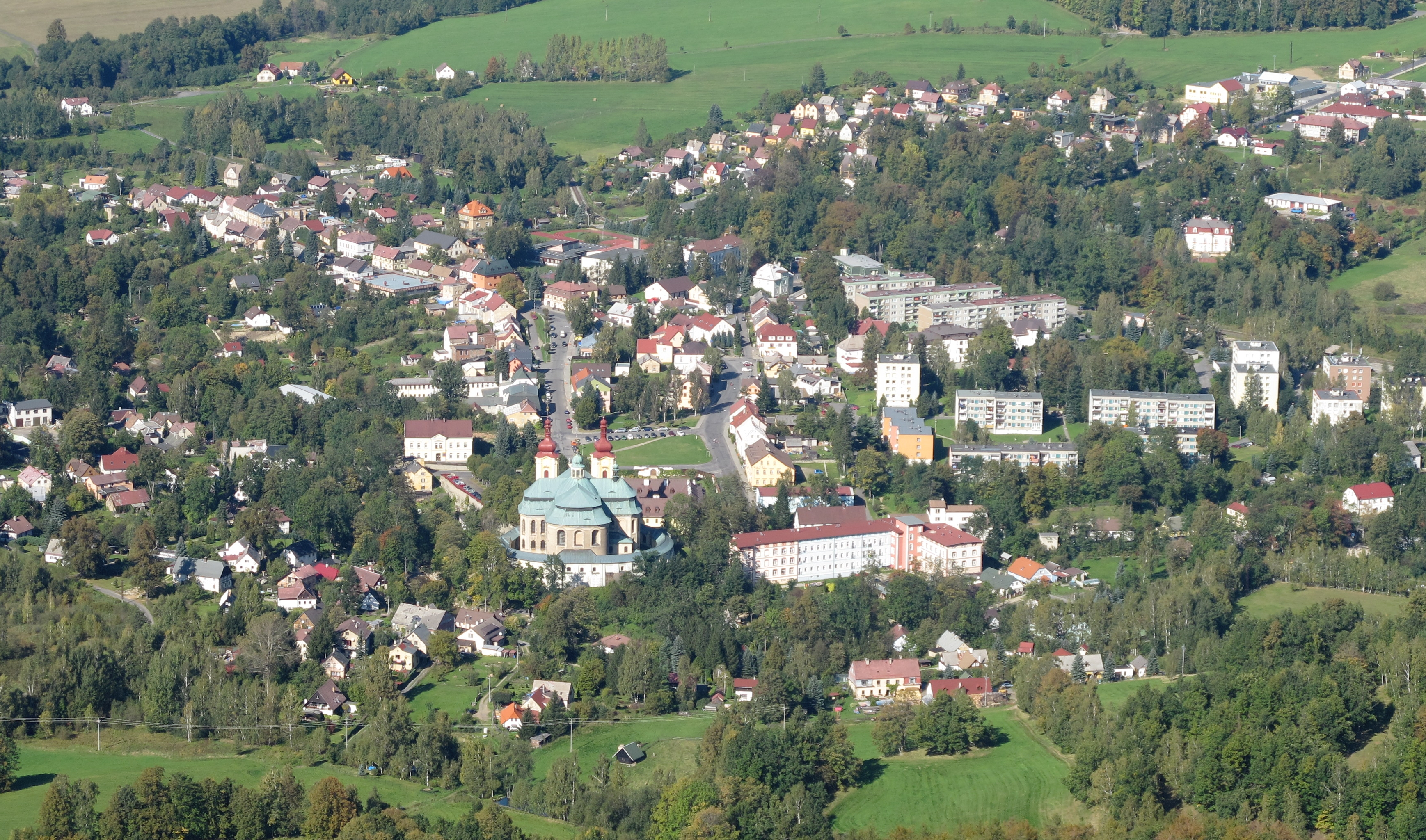 View from Ořešník (800 m) - one of the peaks of the Jizera Mountains, Liberec District in Czech Republic